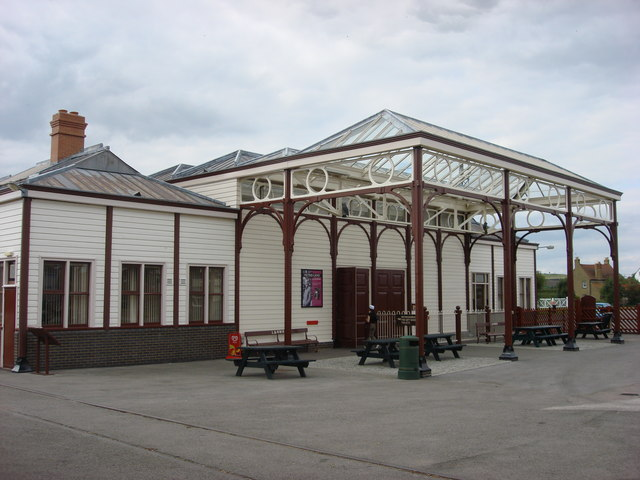 Re-located Rewley Road station building Rewley Road station building was dismantled at its original site in Oxford city centre and re-erected here at Quainton. This was the terminus of the London & North Western Railway (L&NWR) which provided services between Oxford and London Euston.